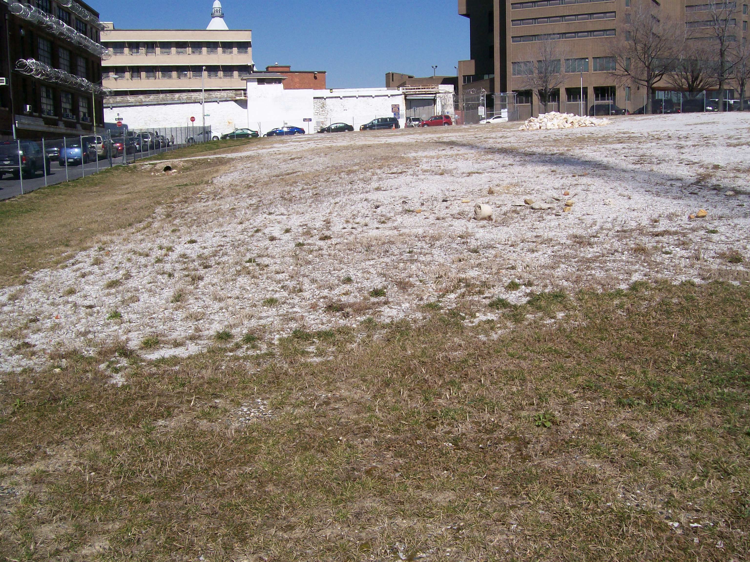 This empty fenced-off area is the proposed site of a jail for youth charged as adults in Baltimore. A pile of sandbags sits on the lot. Photo taken from Monument St. looking towards Madison St.